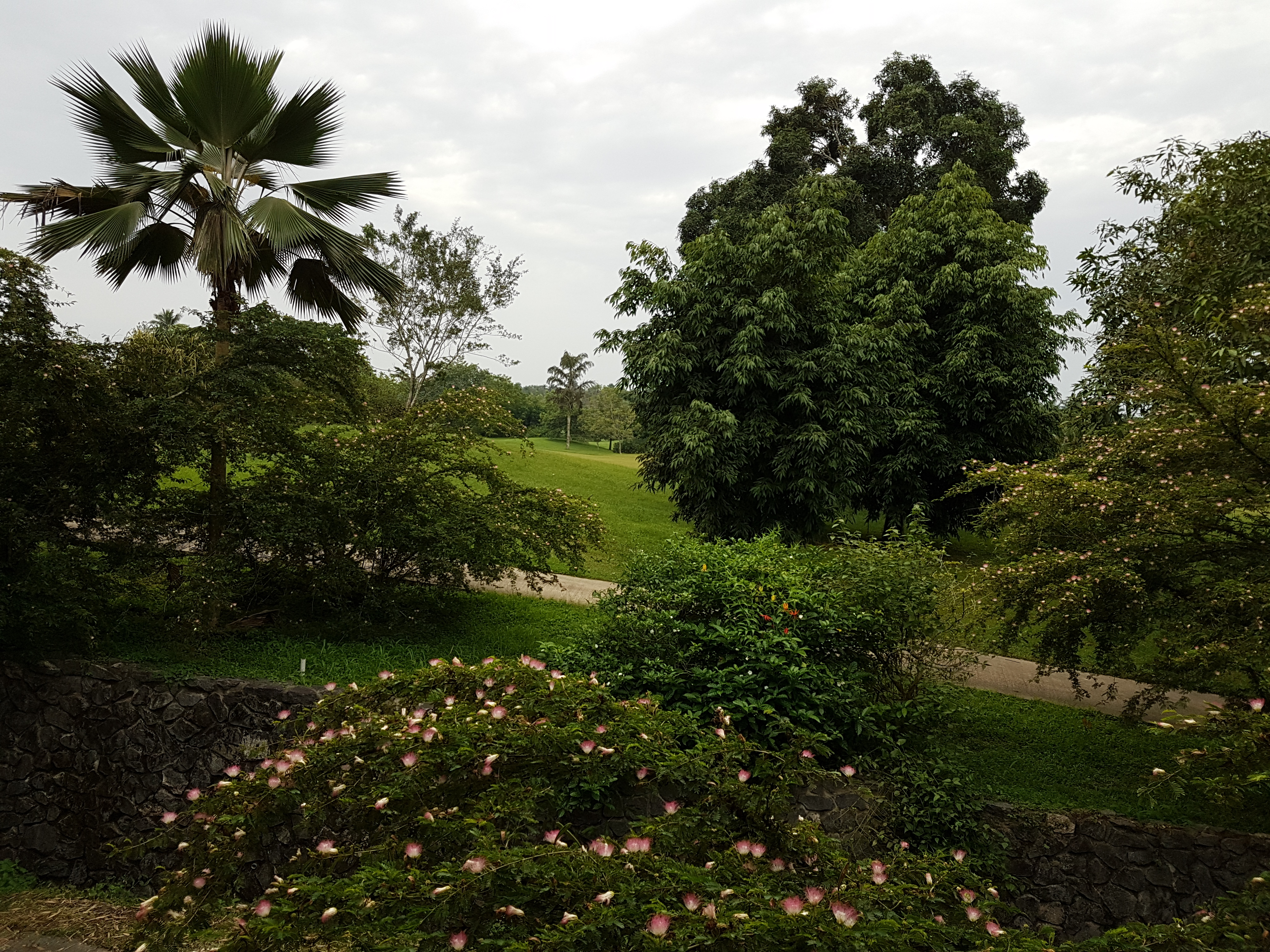 Meridien Akwa Ibom park, Uyo, Akwa Ibom State, Nigeria, June 2017.